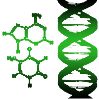 Low quality png of a double helix made by User:TCorp for Wikipedia (General usage).